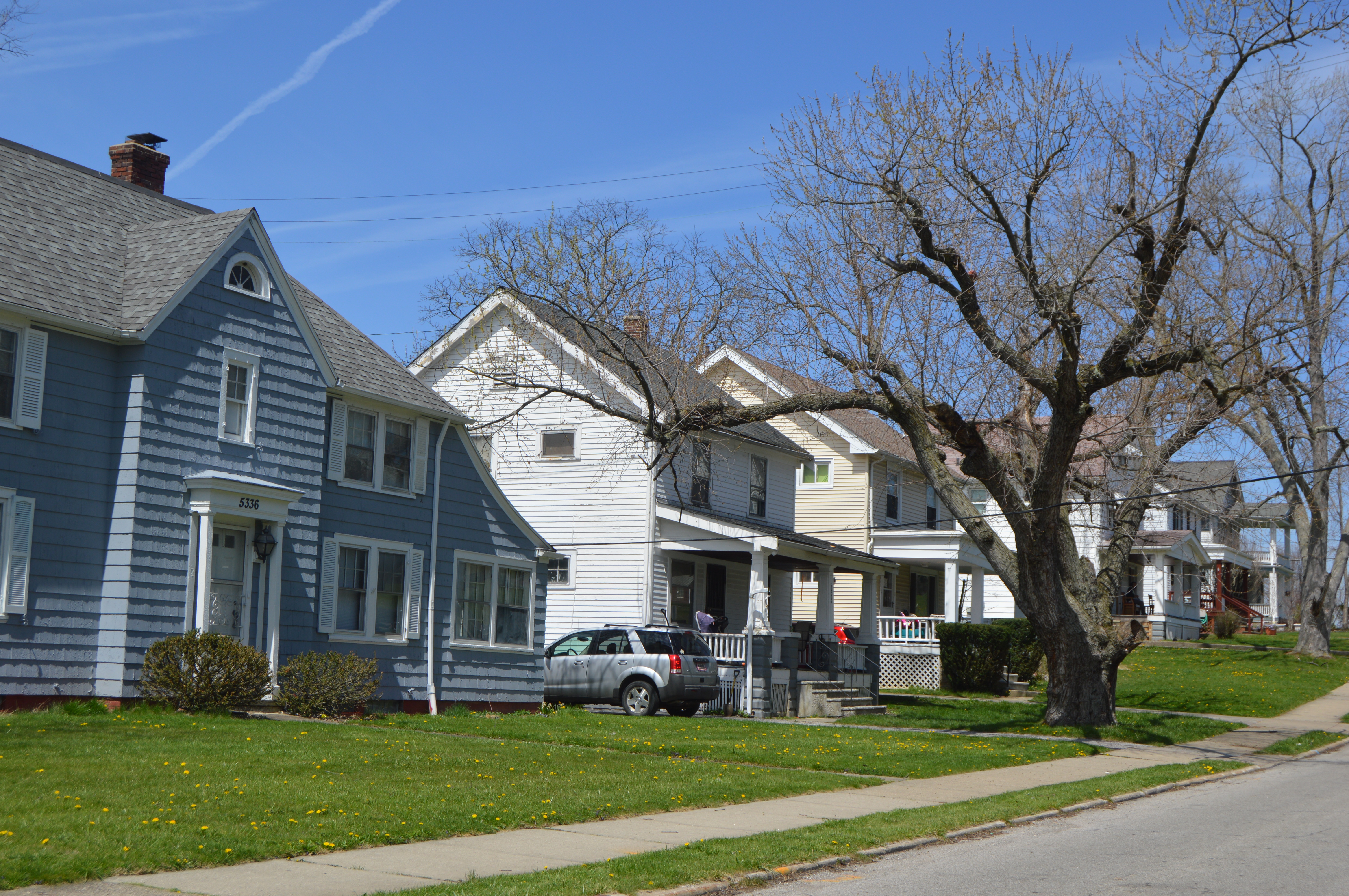 Houses on the western side of Vine Street, at the street's southern end, in Maple Heights, Ohio, United States.